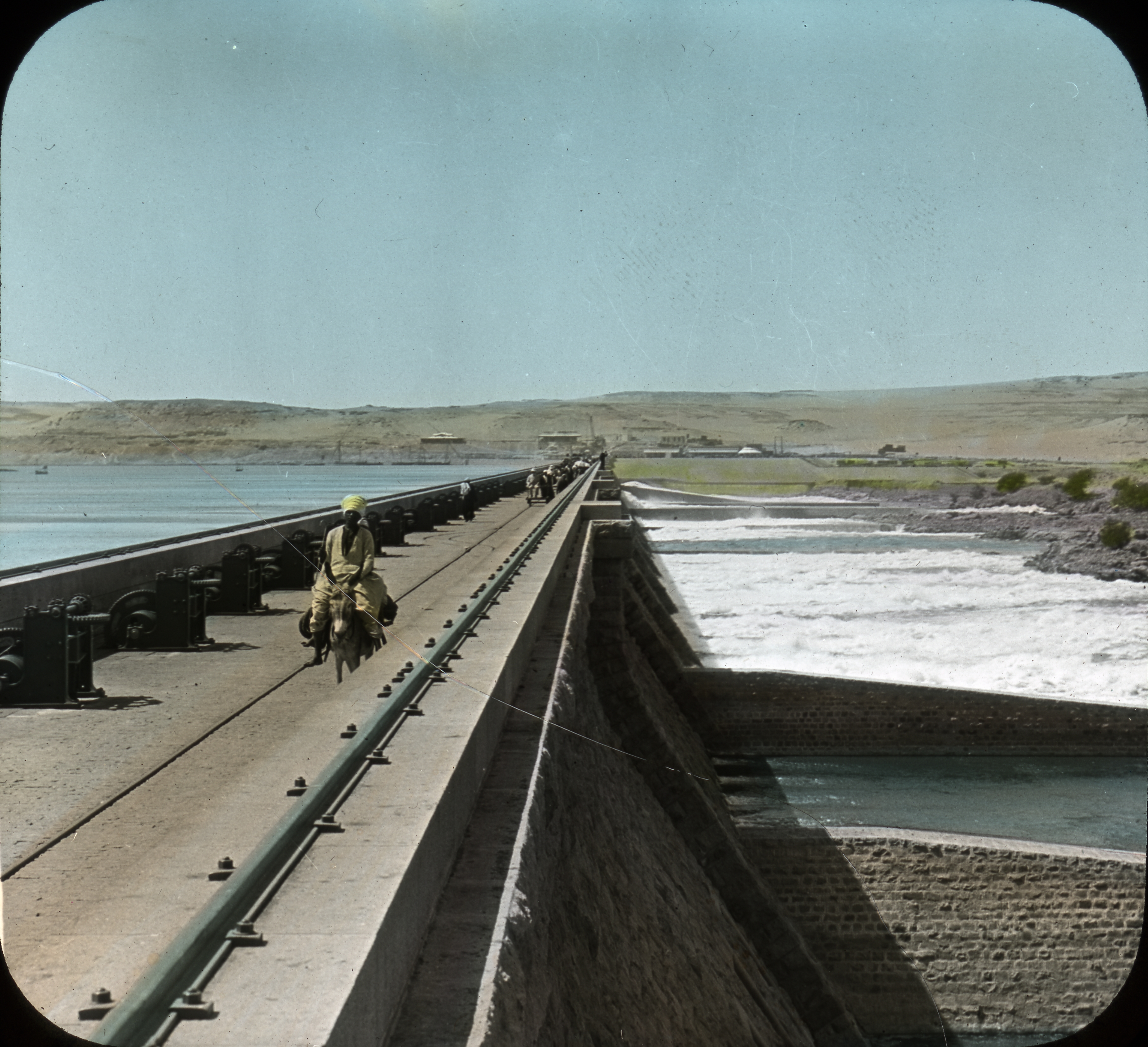 Lantern Slide Collection: Views, Objects: Egypt. General Views\People [selected images]. View 079: Great Nile Dam, at first cataract, Egypt., 1908, Copyright, 1908, by Stereo-Travel Co. Brooklyn Museum Archives (S10|08 General Views_People, image 9822). Help us map this image by using Suggestify to suggest a location for it.